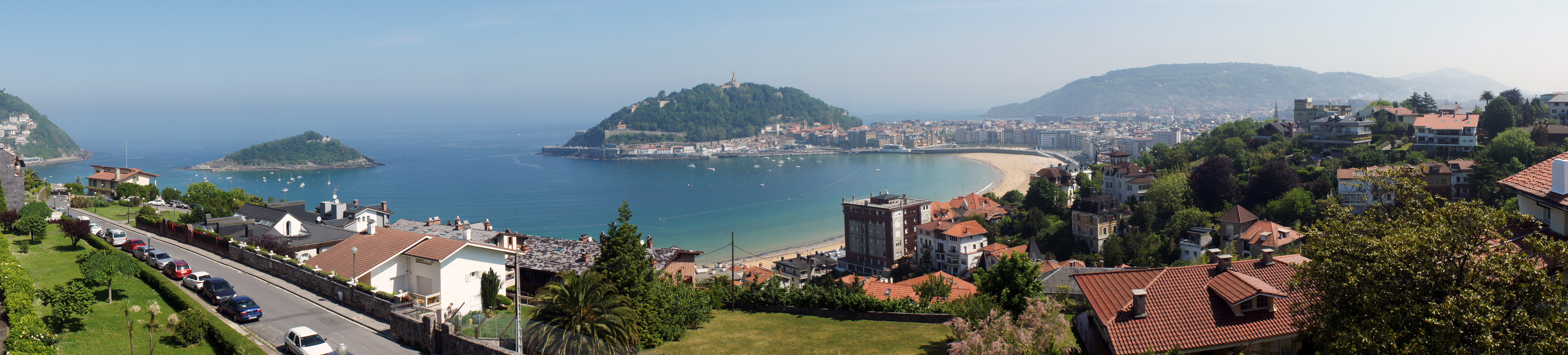 Panoramic view of the Bay of La Concha and the city of San Sebastian, Basque Country, Spain.